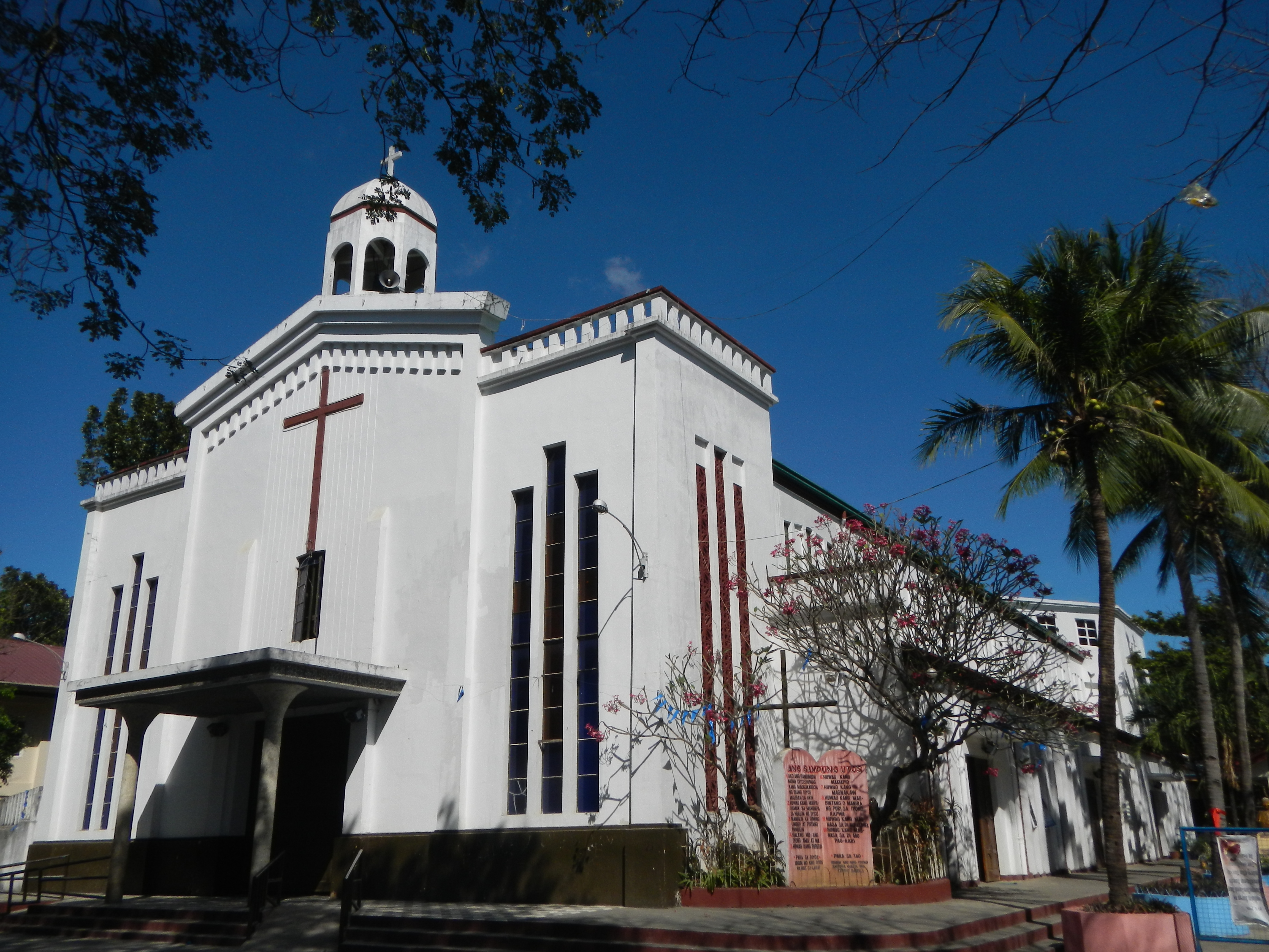 1860 St. John the Evangelist Parish Church of Guimba, [1] Vicar Forane:Fr. Richard V. Bena­vente, SOLT St. John the Evangelist Parish Church, Guimba 3115 Nueva Ecija Parochial Vicar: Fr. Marcelito A. Paez Resident Priest: Fr. Rufo Ramil H. Cruz, PhD Titular:St. John the Evangelist[2][3]Vicariate of St. John the Evangelist Titular: St. John the Apostle Current Parish Priest: Msgr. Rolando R. Mabutol Dialects: Tagalog, Ilocano Population: 67,041 Catholics: 0.9%[4]The Roman Catholic Diocese of San Jose in the Philippines (Lat: Dioecesis Sancti Iosephi in Insulis Philippinis) is an ecclesiastical territory or diocese of the Latin Rite of the Roman Catholic Church in the Philippines.[5]Guimba, Nueva Ecija[6]